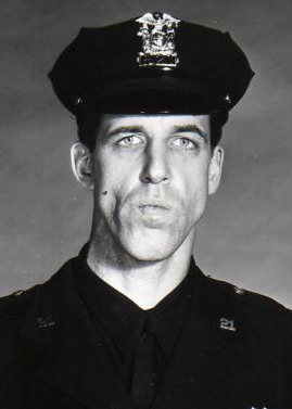 Photo of Fred Gwynne as Officer Muldoon and Joe E. Ross as Officer Toody from the television program Car 54, Where Are You?.